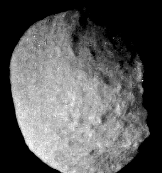 Heavily processed from Voyager 2 imagery taken on August 25 1989. NASA/JPL-Caltech/Kevin M. Gill